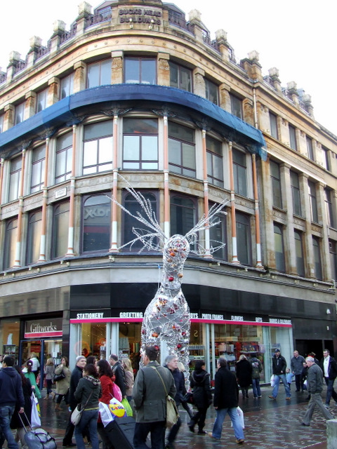 Bucks Head Buildings